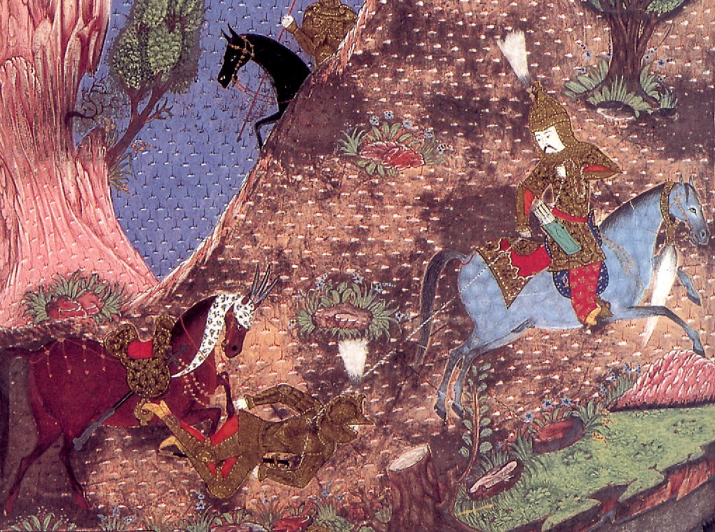 Illustrations of Ottoman soldiers from the Süleymanname